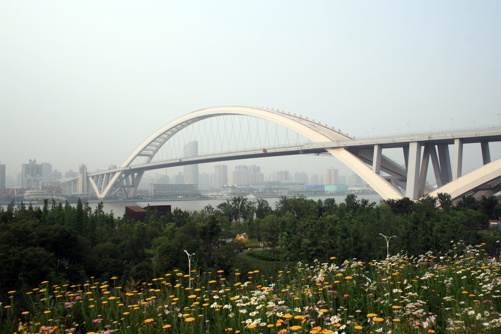 View of Shanghai's Lupu Bridge, taken from the rooftop of the Swiss Pavillion at the World Expo 2010 (Pudong side)